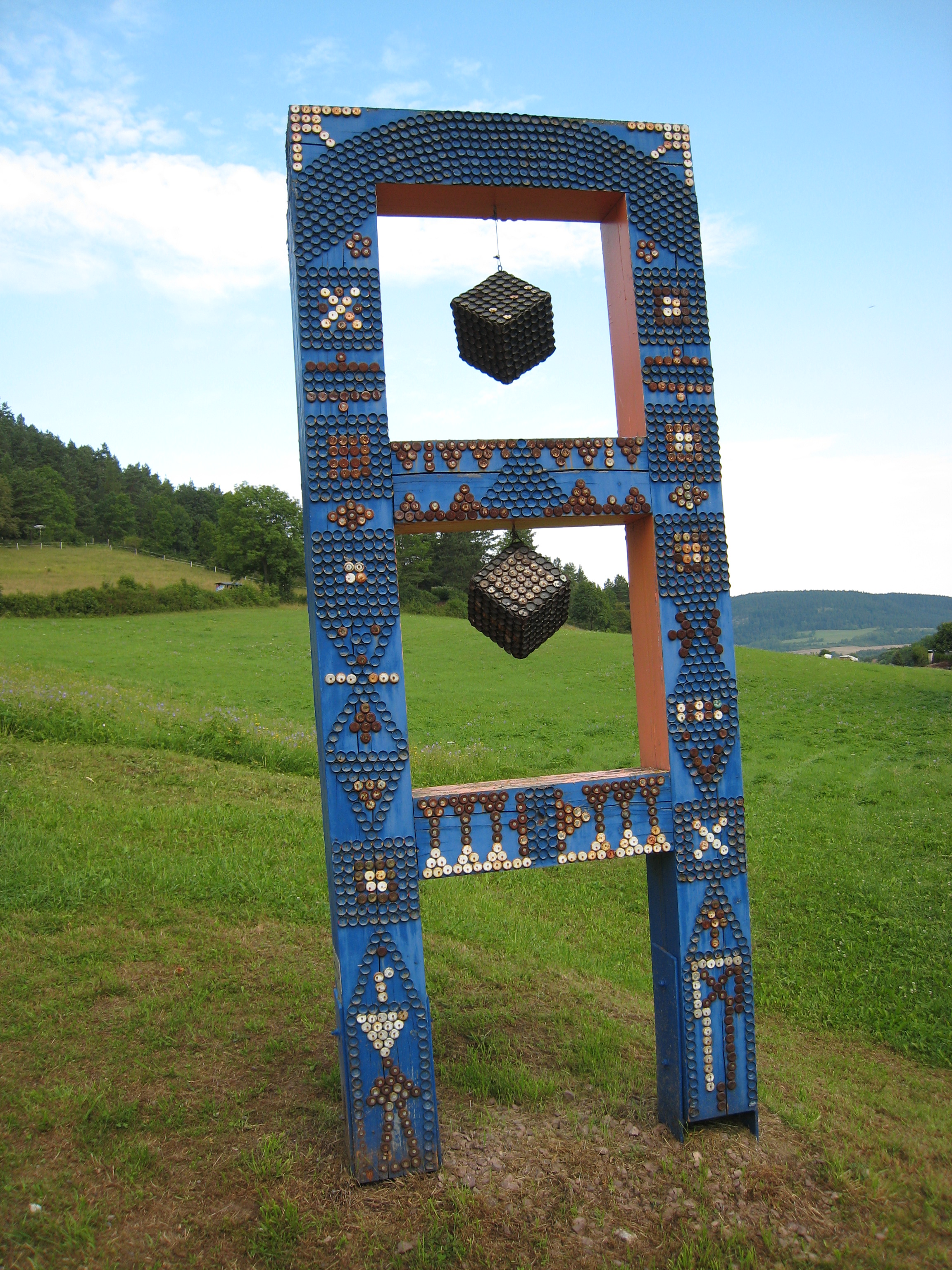 Kunstwanderweg Kleinbreitenbach 13